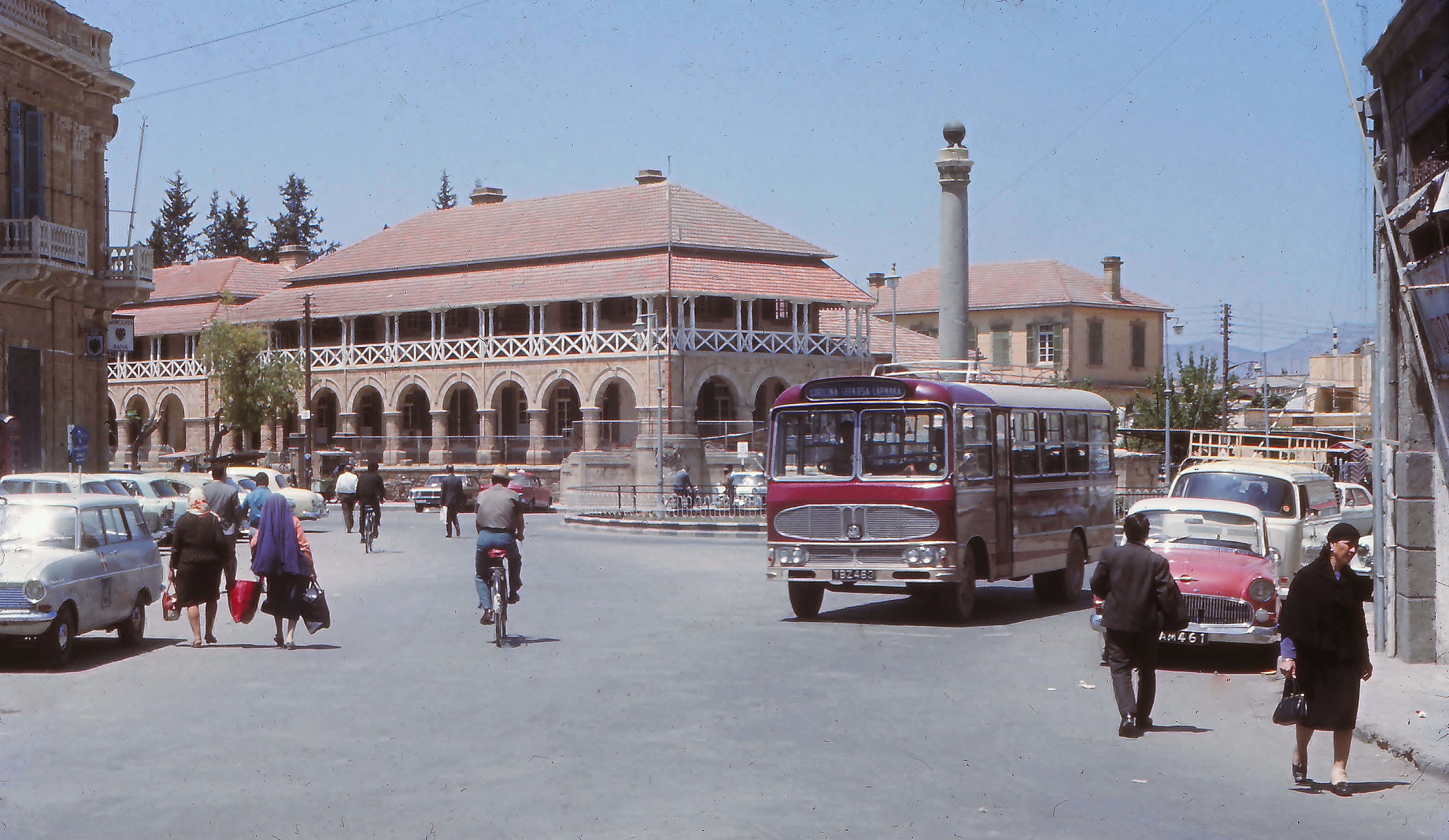 Sarayönü or Atatürk Square in North Nicosia in 1969